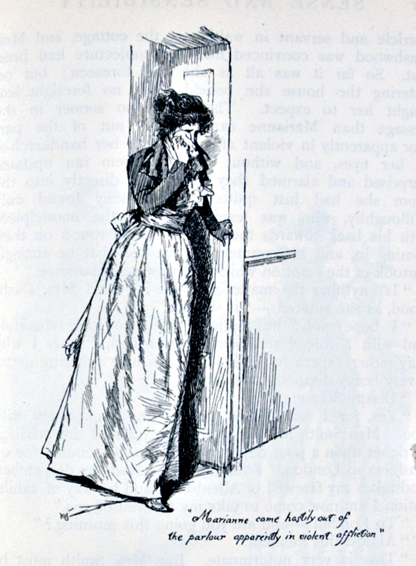 "Marianne came hastily out of the parlour apparently in violent affliction" - Willoughby leaves Marianne in a strange and surprising manner. Austen, Jane. Sense and Sensibility. London: George Allen, 1899, page 8x.